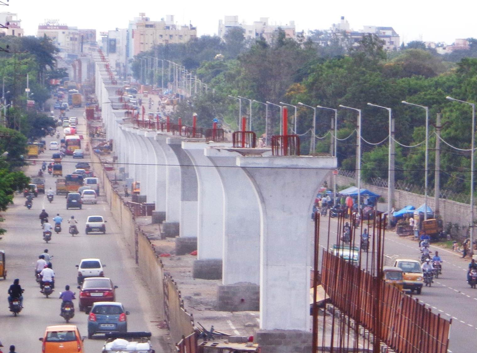 Hyderabad Metro Rail Project - Progress